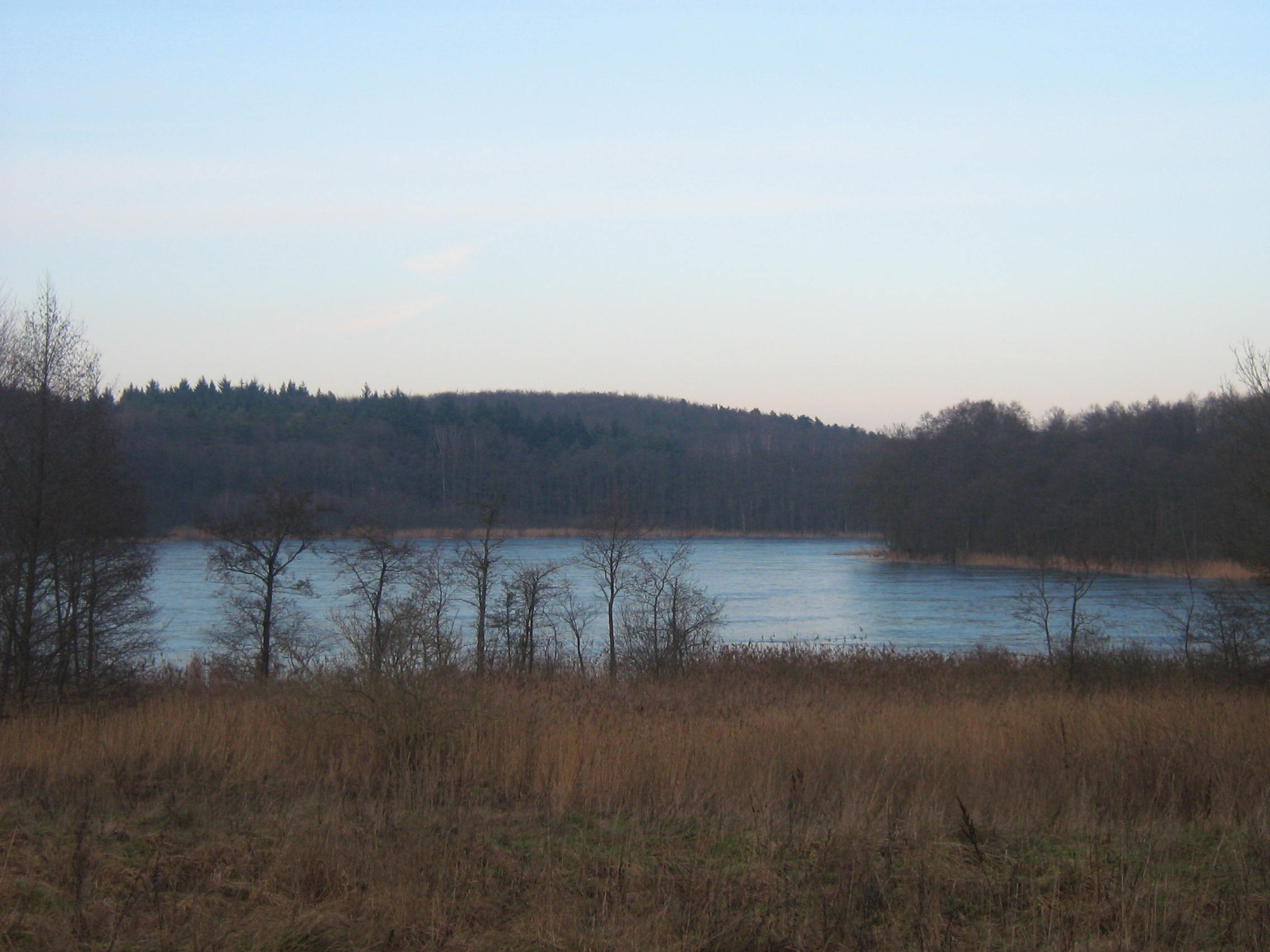 Rabiąż Lake